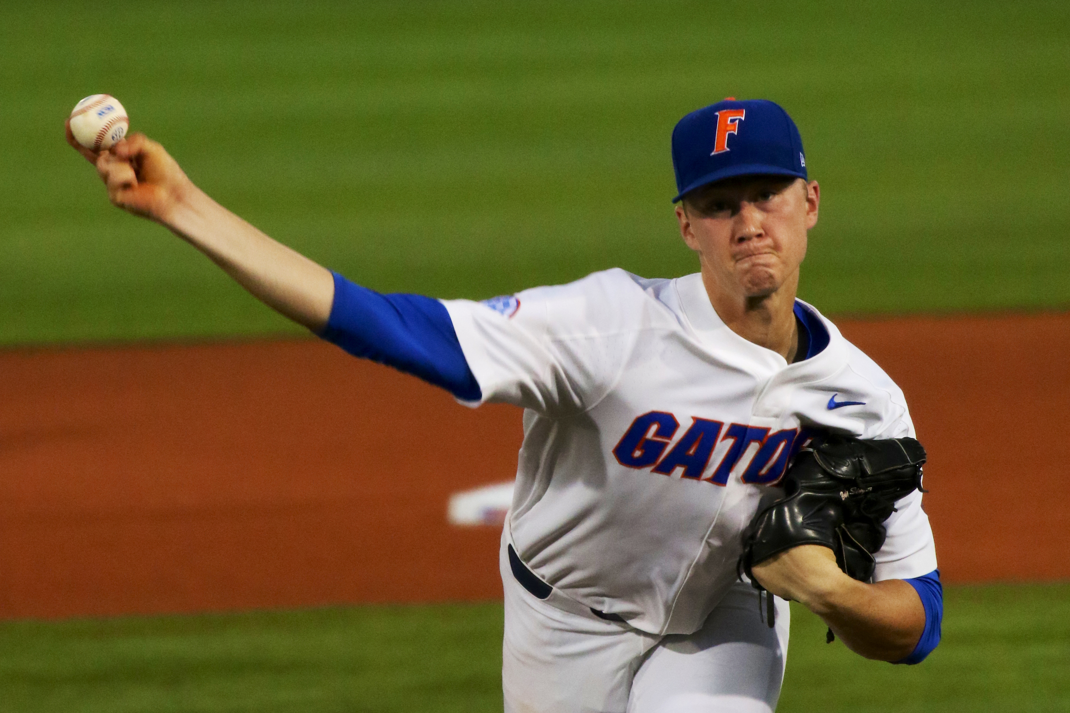 Gators vs Stony Brook 3/2/2018 Gators Win 12-5 Thank you for taking the time to view my photos.